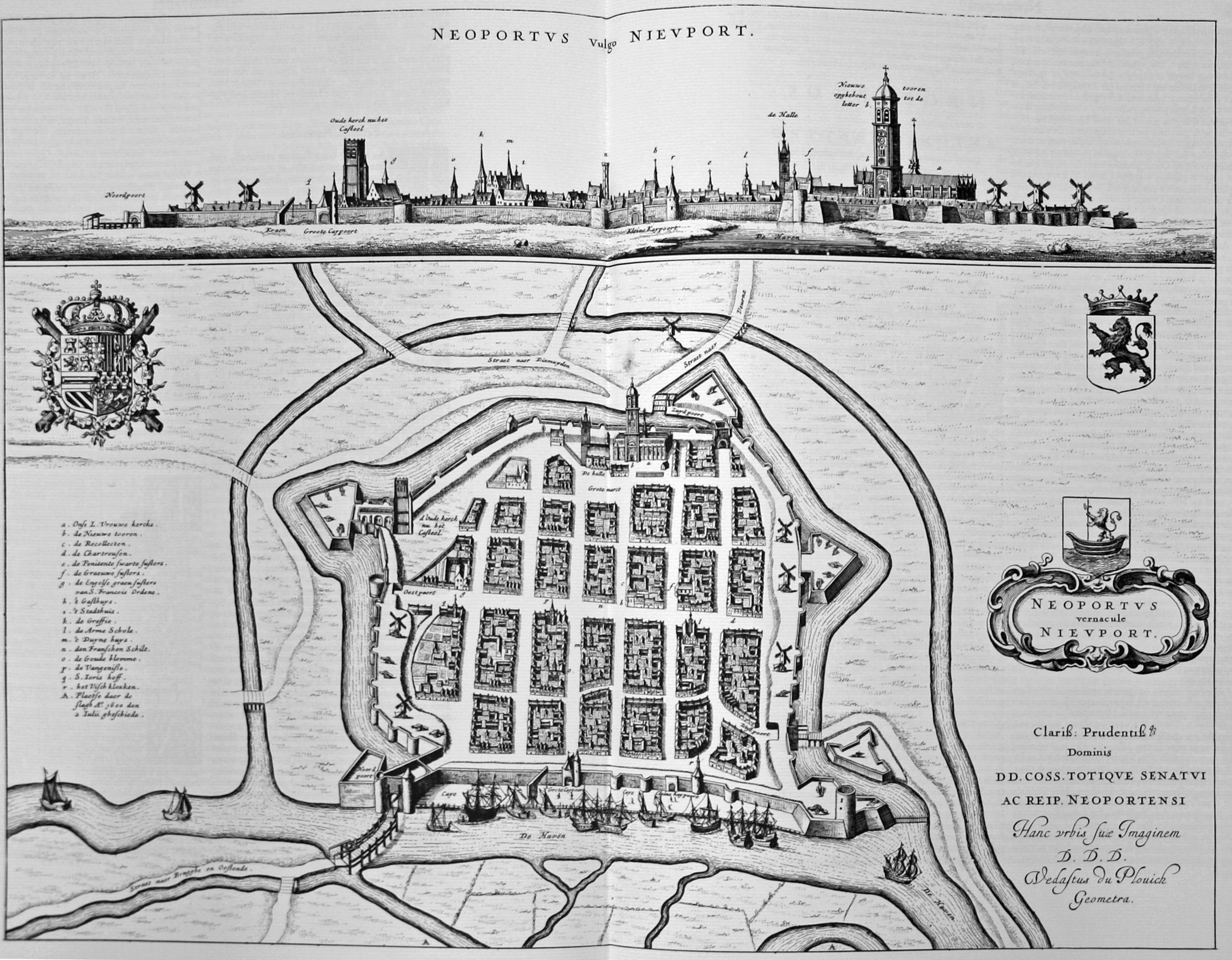 Nieuwpoort (Belgium): Page 636 of Antoon Sanders Flandria Illustrata